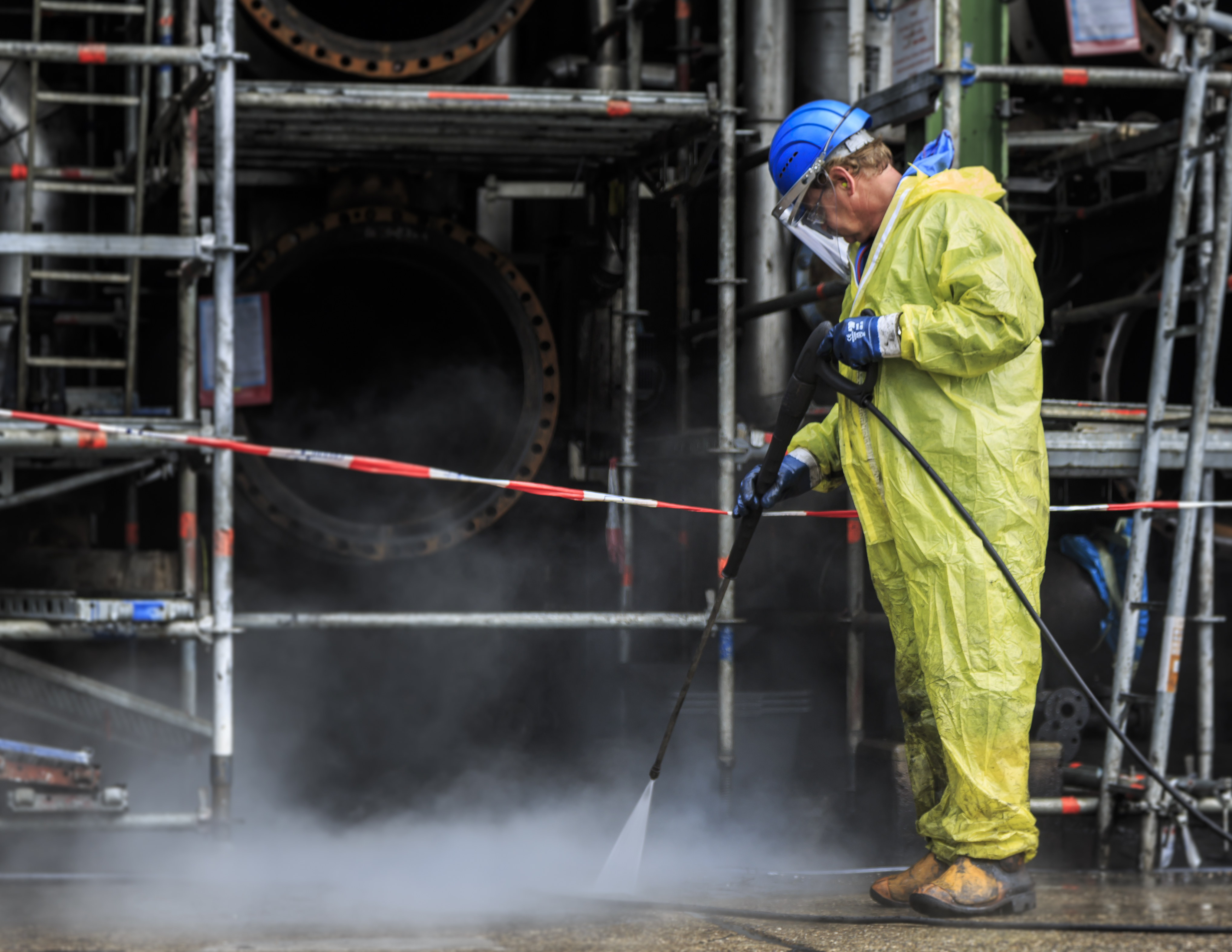 High pressure cleaning of a concrete floor in the petrochemical industry